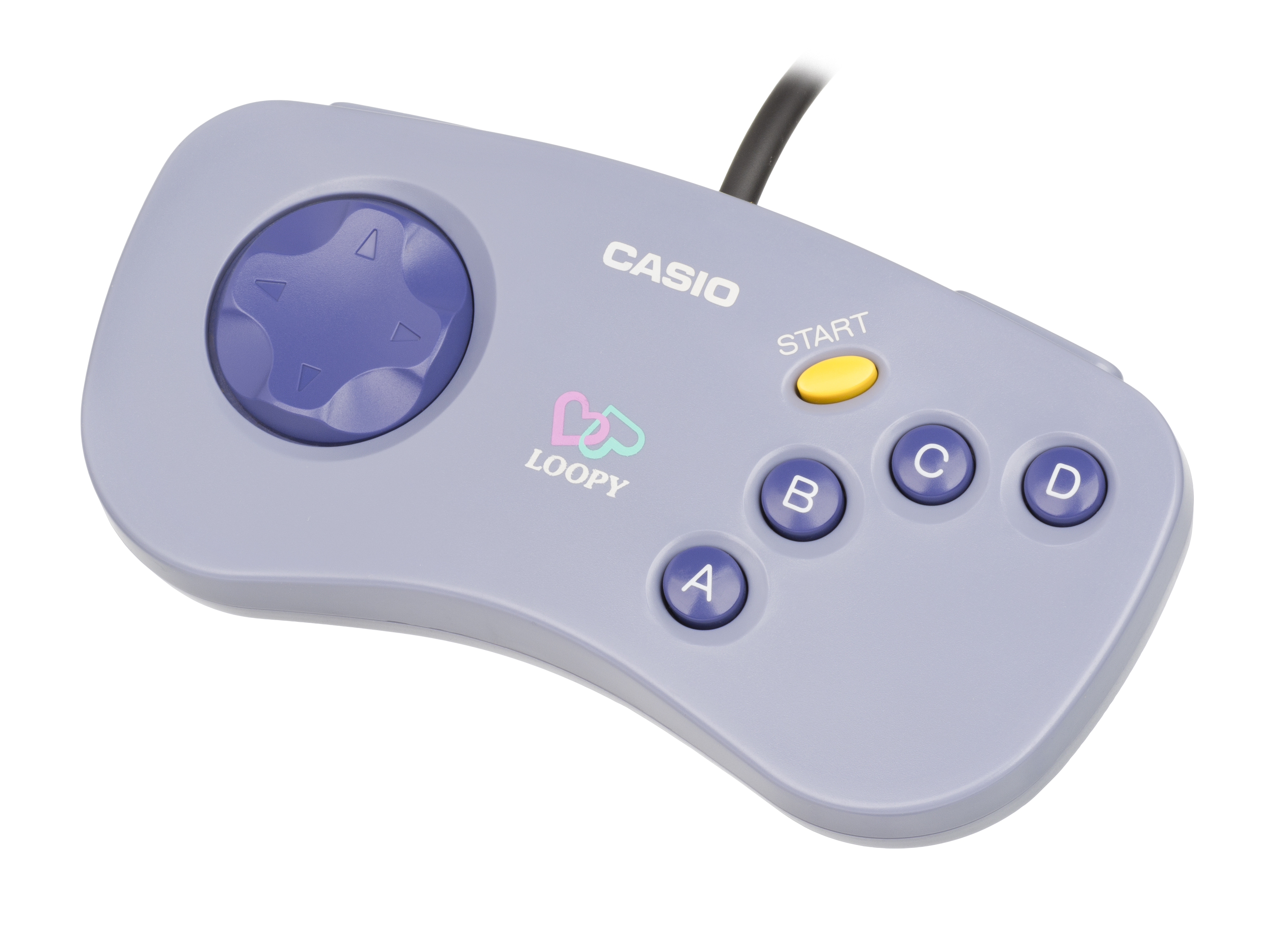 The controller for Casio Loopy, a 1995 video game console only released in Japan. The Loopy is unique for its ability to print stickers, as well as its being marketed directly to girls.